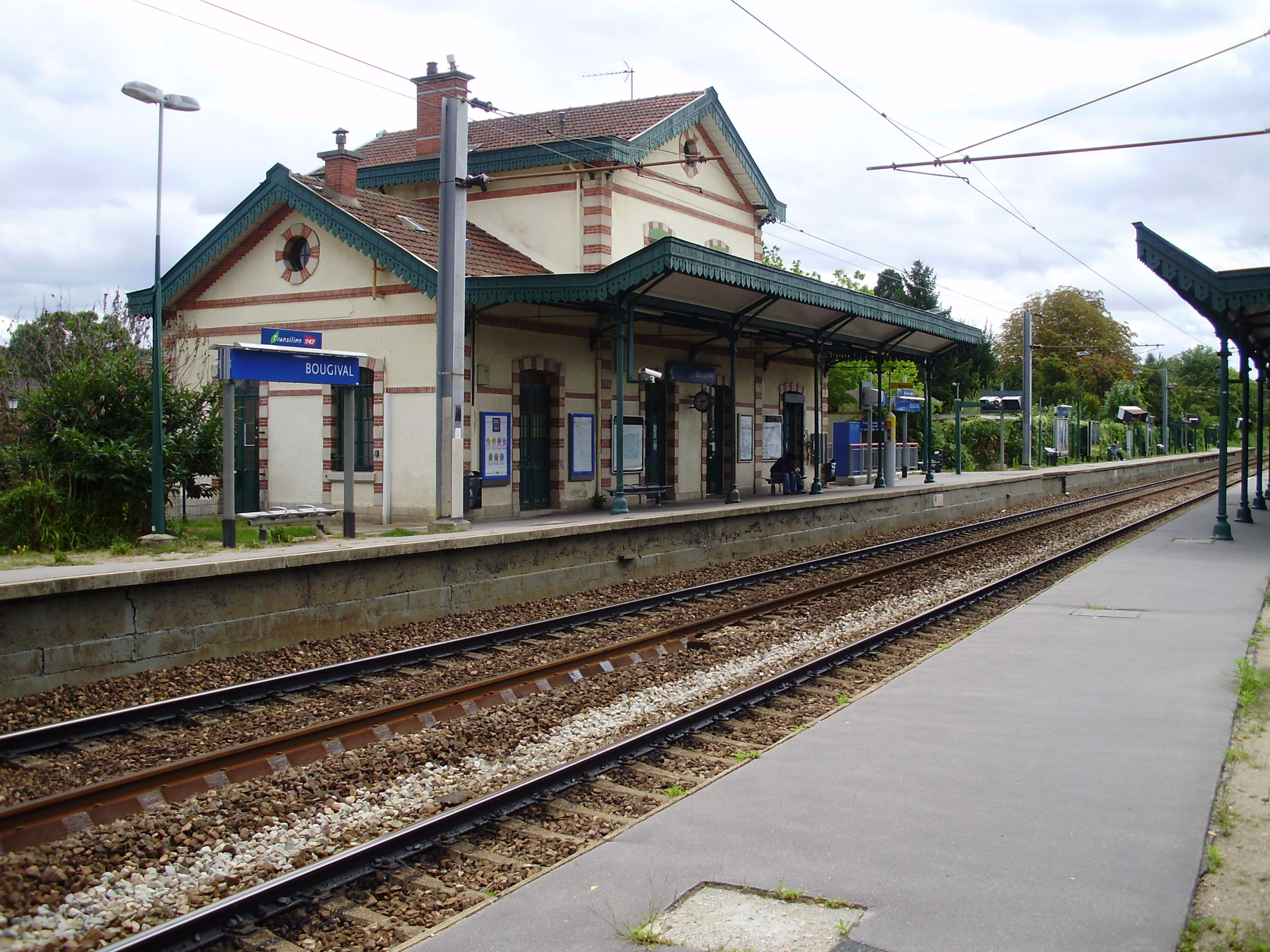 Bougival station, in La Celle-Saint-Cloud, Yvelines, France (view of the station building from the platform to Saint-Nom-la-Bretèche)